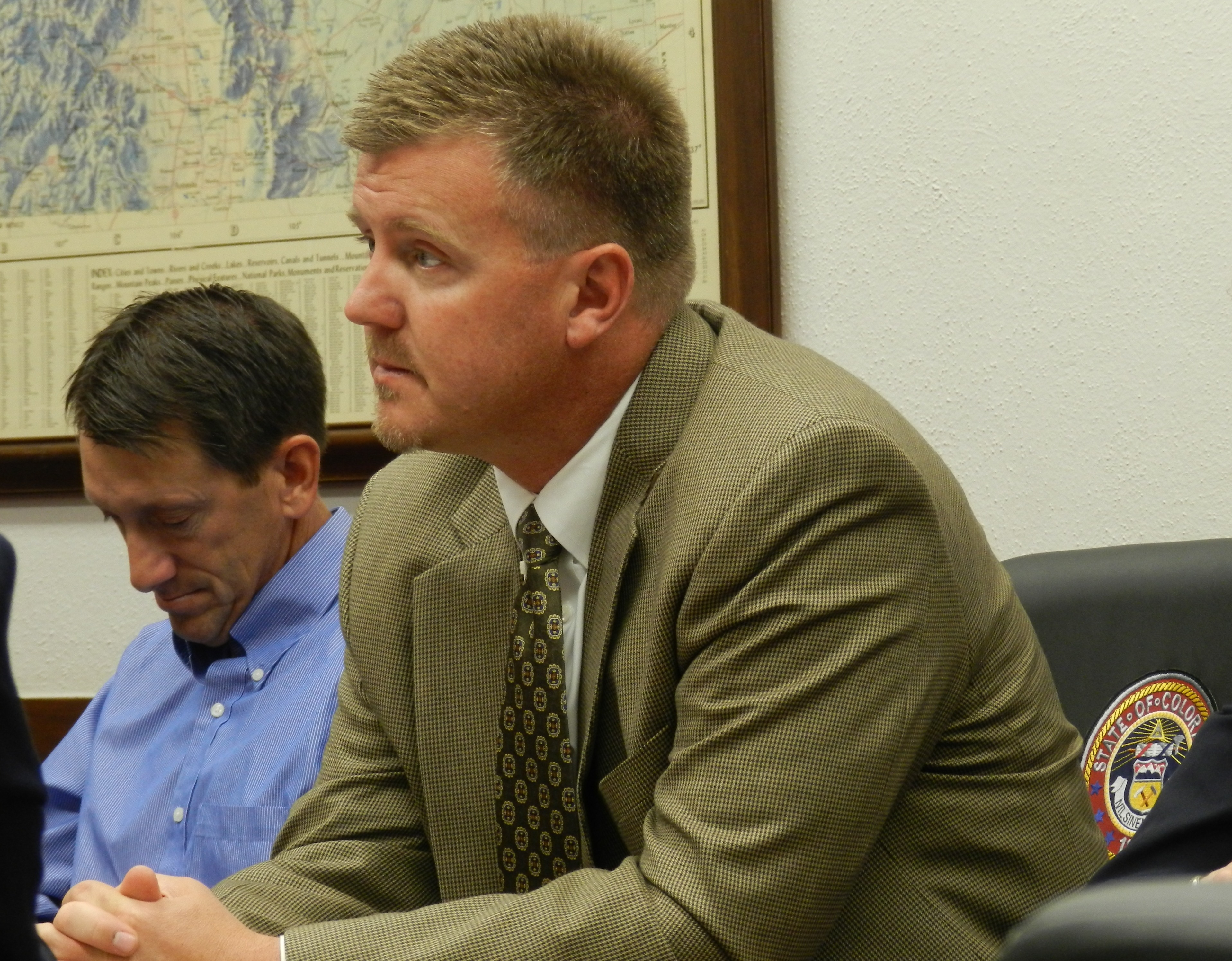 Senate Republicans meet to elect their new leadership team for the 2011-12 session. Learn more at